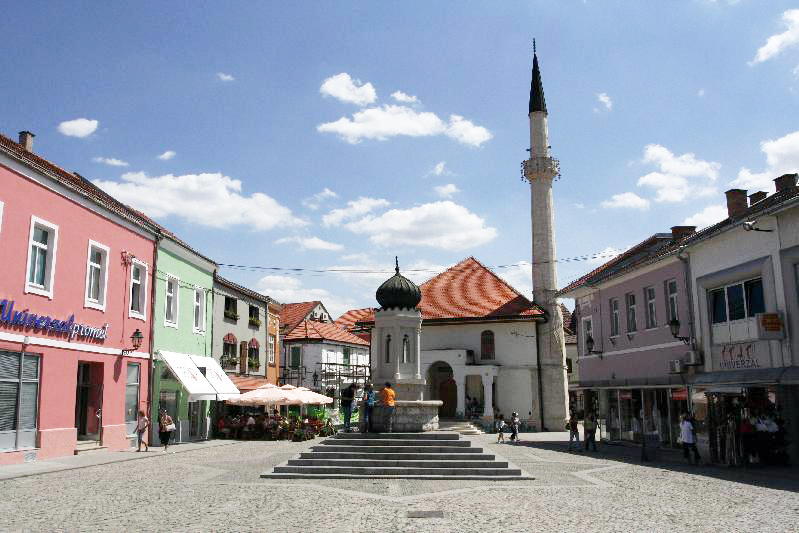 A public fountain of Tuzla in summer 2007.